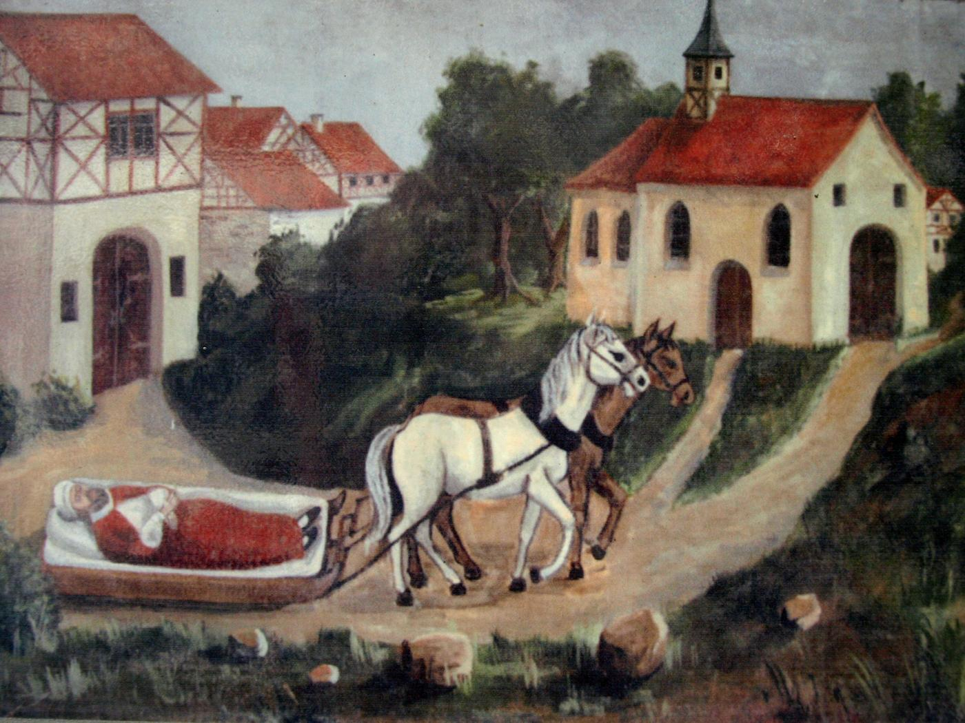 Baunach, Bavaria (Germany), Chapel St. Magdalena, picture of the legend, photo 2012